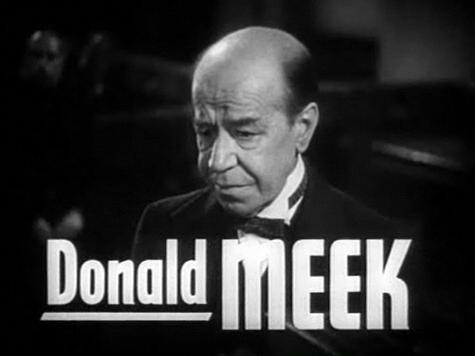 Cropped screenshot of Donald Meek from the trailer for the film A Woman's Face